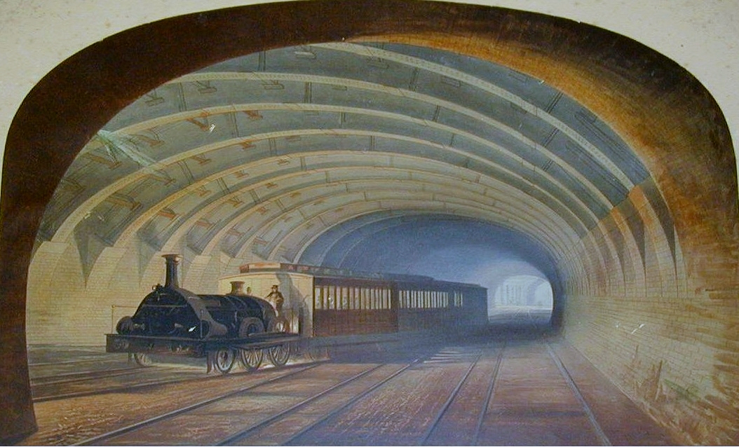 The title of this Chromolithograph is "Metropolitan Railway, Bellmouth Praed Street", and shows a GWR broad gauge train at Praed Street junction near Paddington station looking towards Edgware Road. The first services on the Metropolitan Railway 1863 were provided by the GWR.